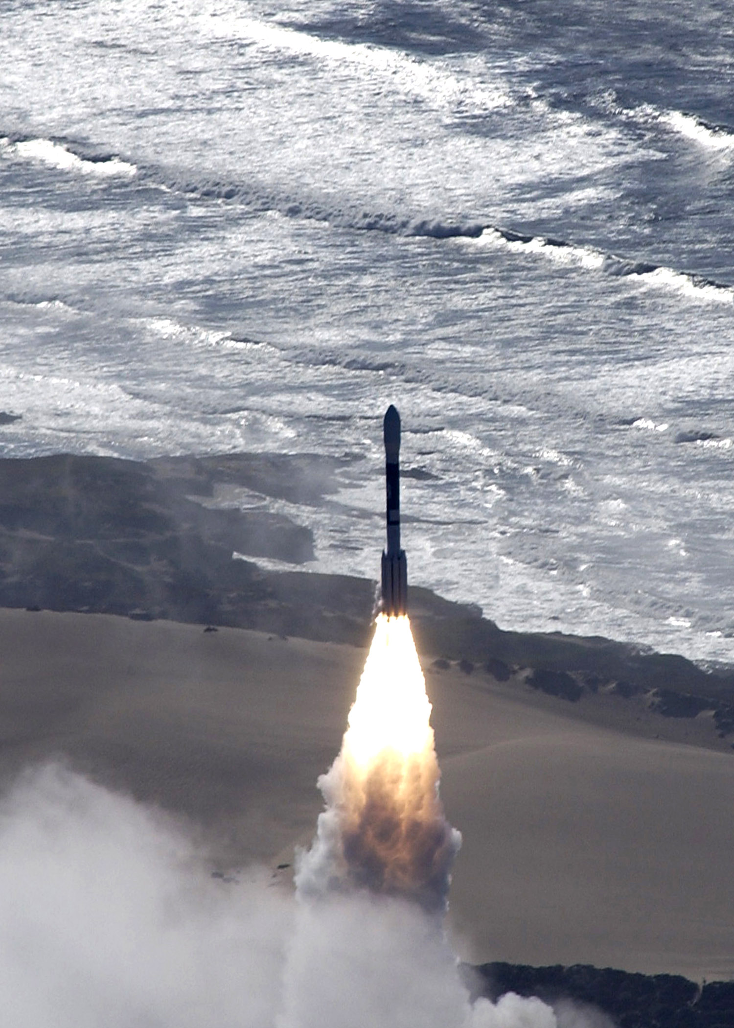 "A Delta II rocket carrying a National Reconnaissance Office satellite successfully launches Dec. 14 from Space Launch Complex-2 at Vandenberg Air Force Base, Calif."